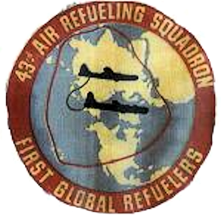 Emblem of the 43d Air Refueling Squadron (SAC) Emblem shows the route of the first non-stop around the world flight, supported by tankers from the 43d Air Refueling Squadron